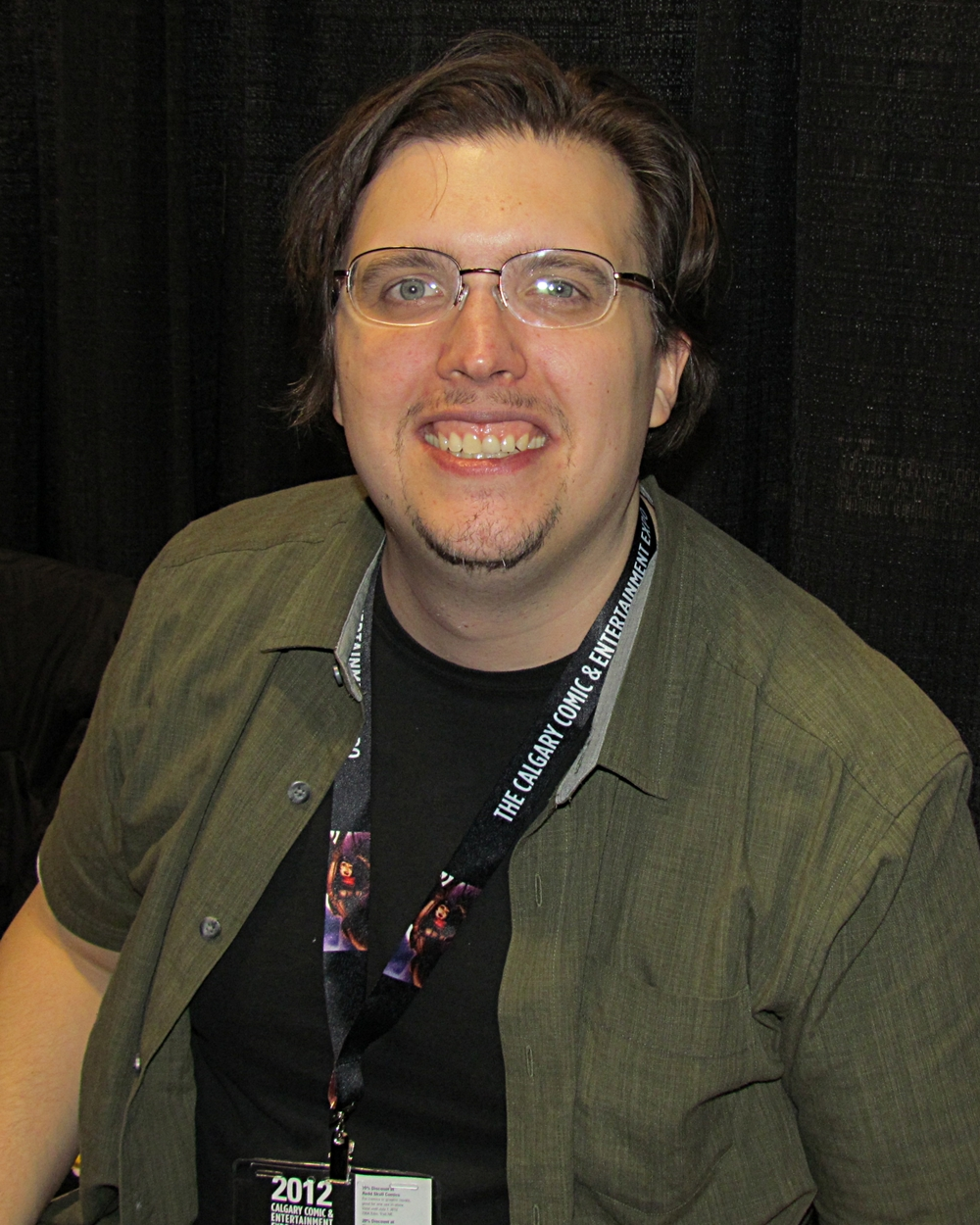 Andy Runton at the Calgary Comic and Entertainment Expo, BMO Centre, Calgary, Alberta, Canada.